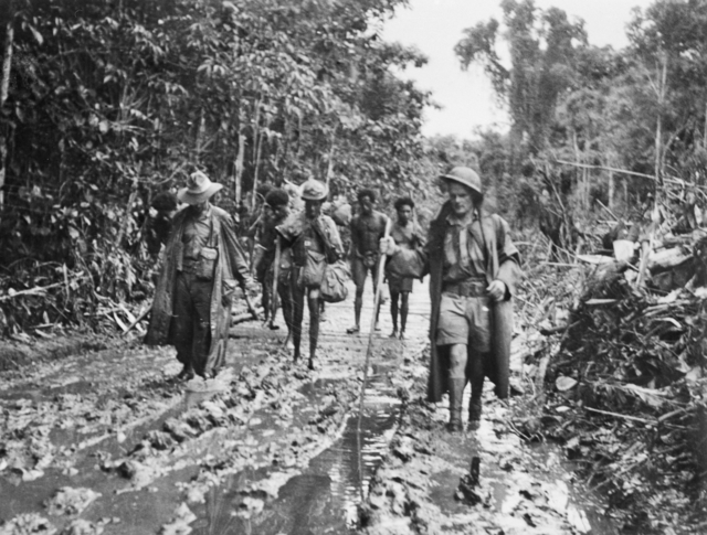 New Guinea. 1943-01-22. Department of Information cameramen Bill Carty and Cliff Bottomley, official photographers, followed by native bearers, on the muddy track between Buna and Sanananda during the final stages of the New Guinea campaign.